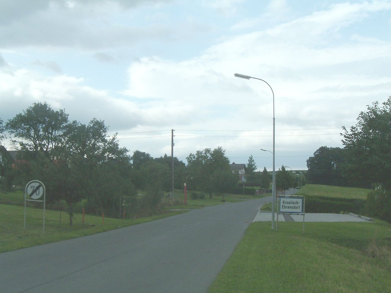 Kroatisch Ehrensdorf (Horváthásos), Burgenland